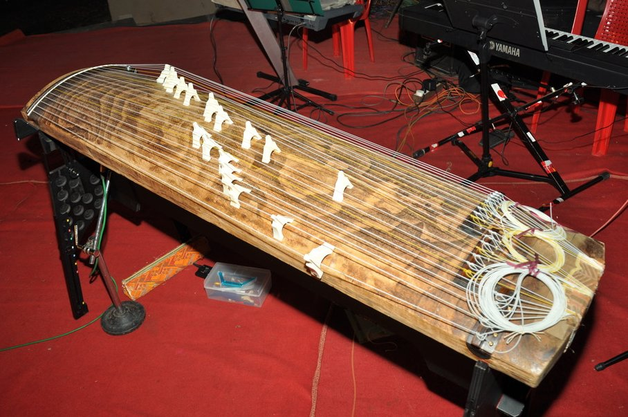 The koto (箏) is a traditional Japanese stringed musical instrument